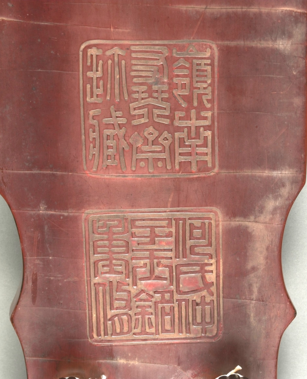 Seals at the back of the qin Hewu Longxiang (鶴舞龍翔)